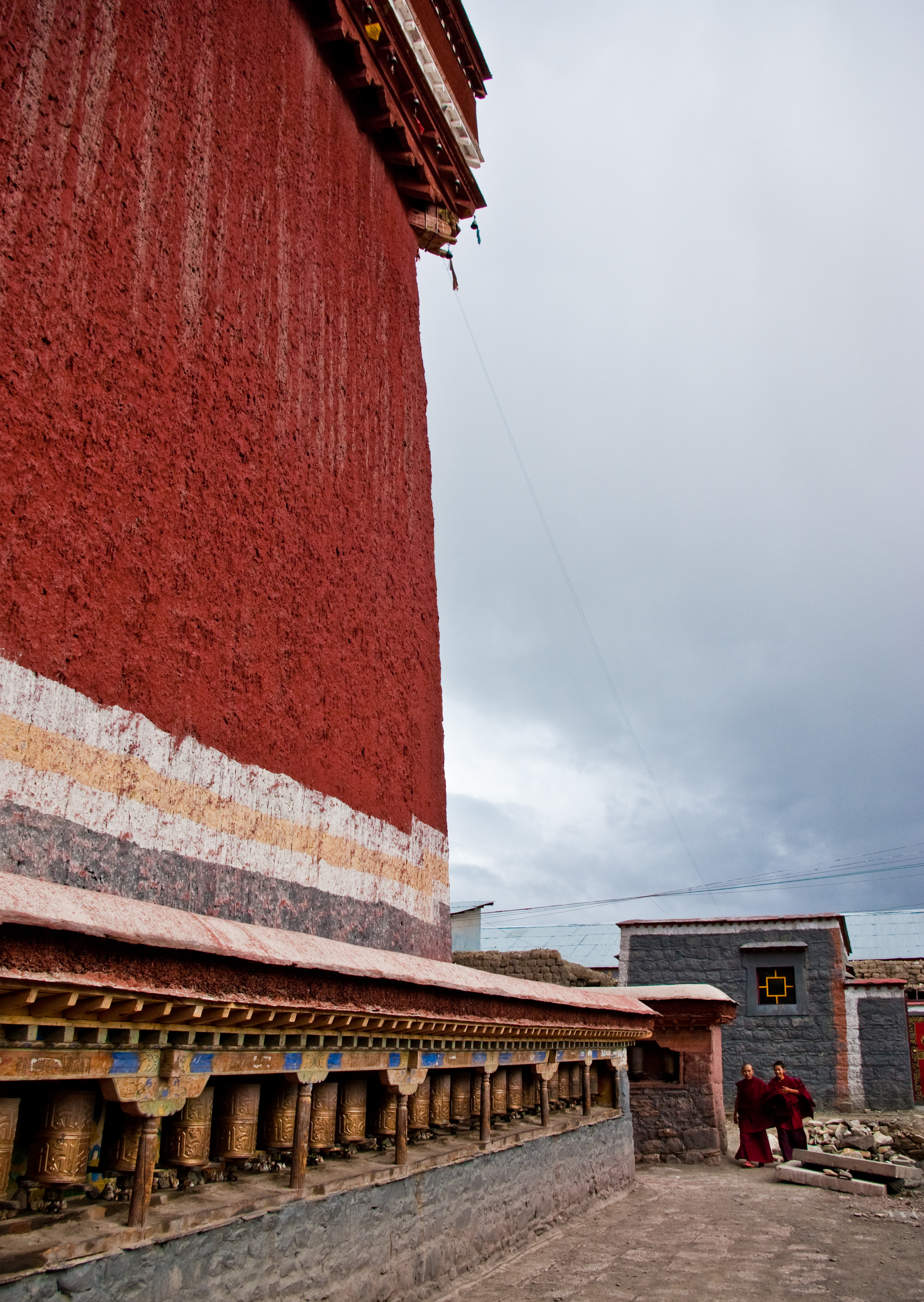 sakya monastery